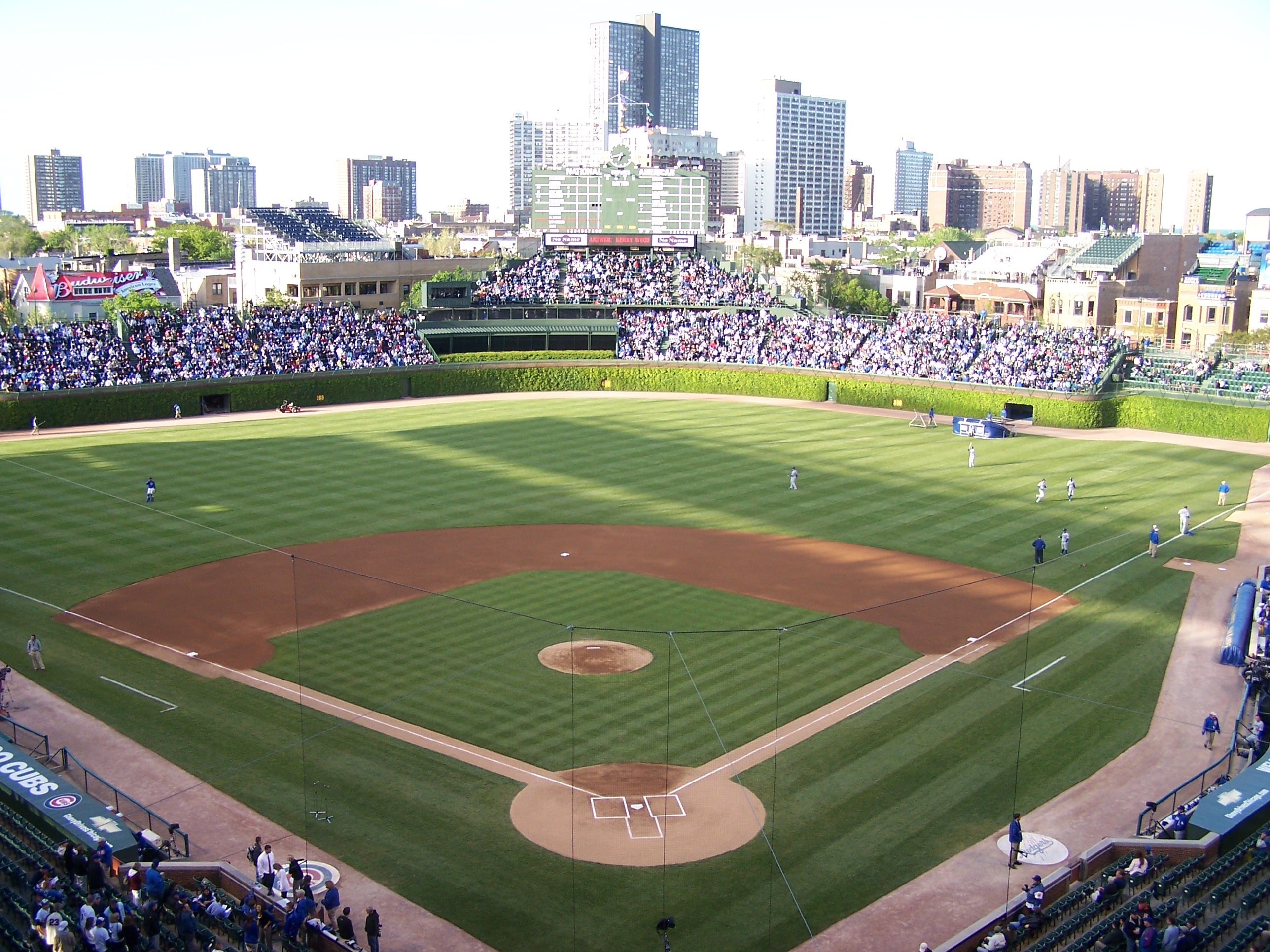 The center field of Wrigley Field in May 2008 with its terraces, its ivy at the base of exterior wall, his manual billboard and steps on the roofs of neighboring houses.